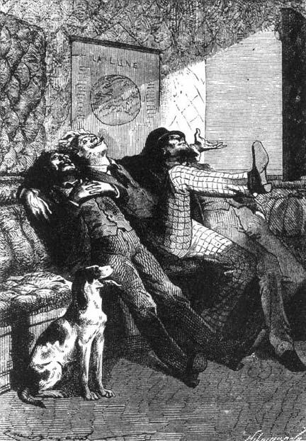 An illustration from Jules Verne's novel "Around the Moon" drawn by Émile-Antoine Bayard and Alphonse de Neuville.